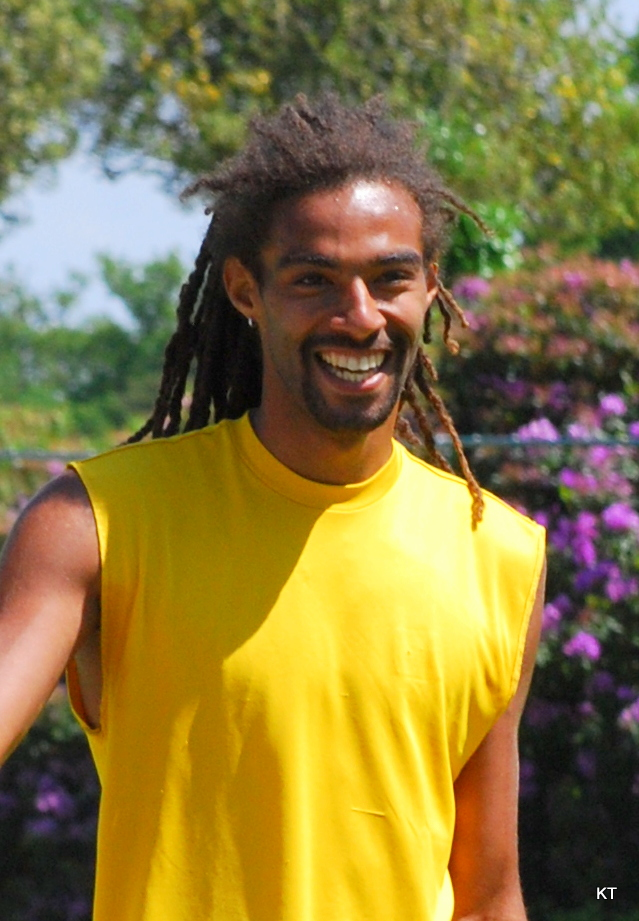 The Boodles, Stoke Park, 2010.